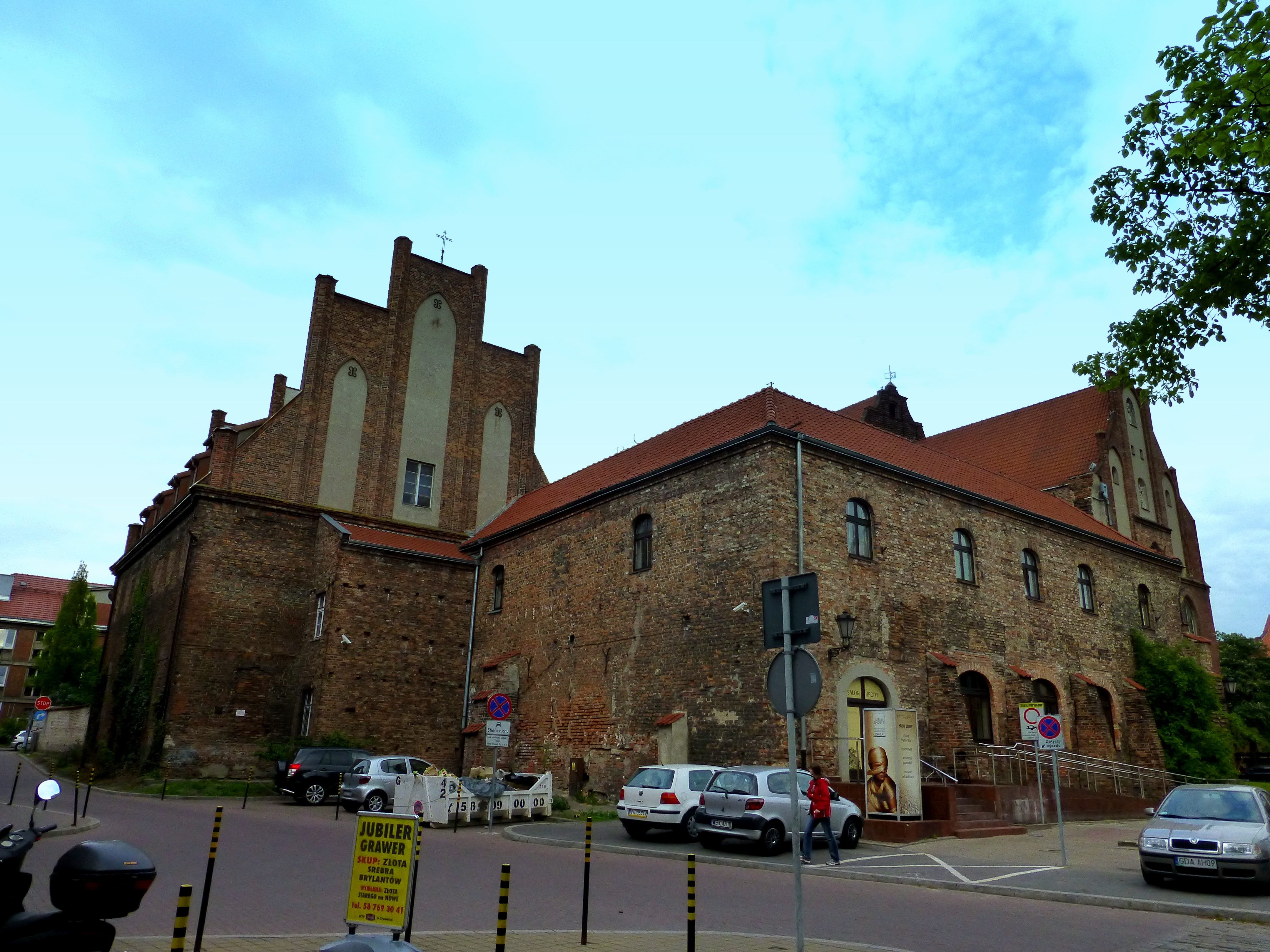 Gdańsk - church of St. Joseph